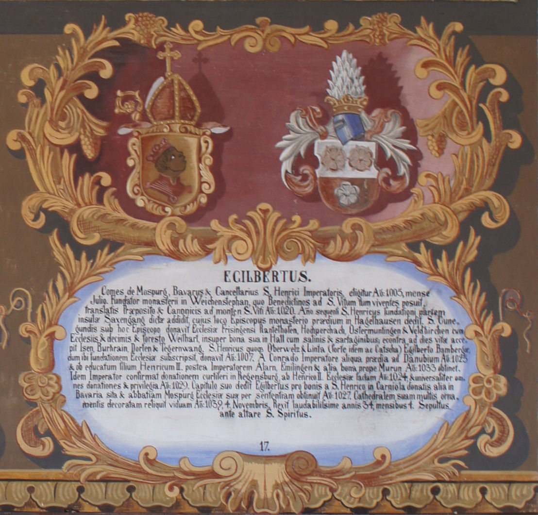 Wappentafel von Egilbert von Moosburg, Bischof von Freising, im Fürstengang zwischen Fürstbischöflicher Residenz und Freisinger Dom. Links das geistliche, rechts das persönliche Wappen, darunter ein lateinischer Text mit kurzer Biographie.